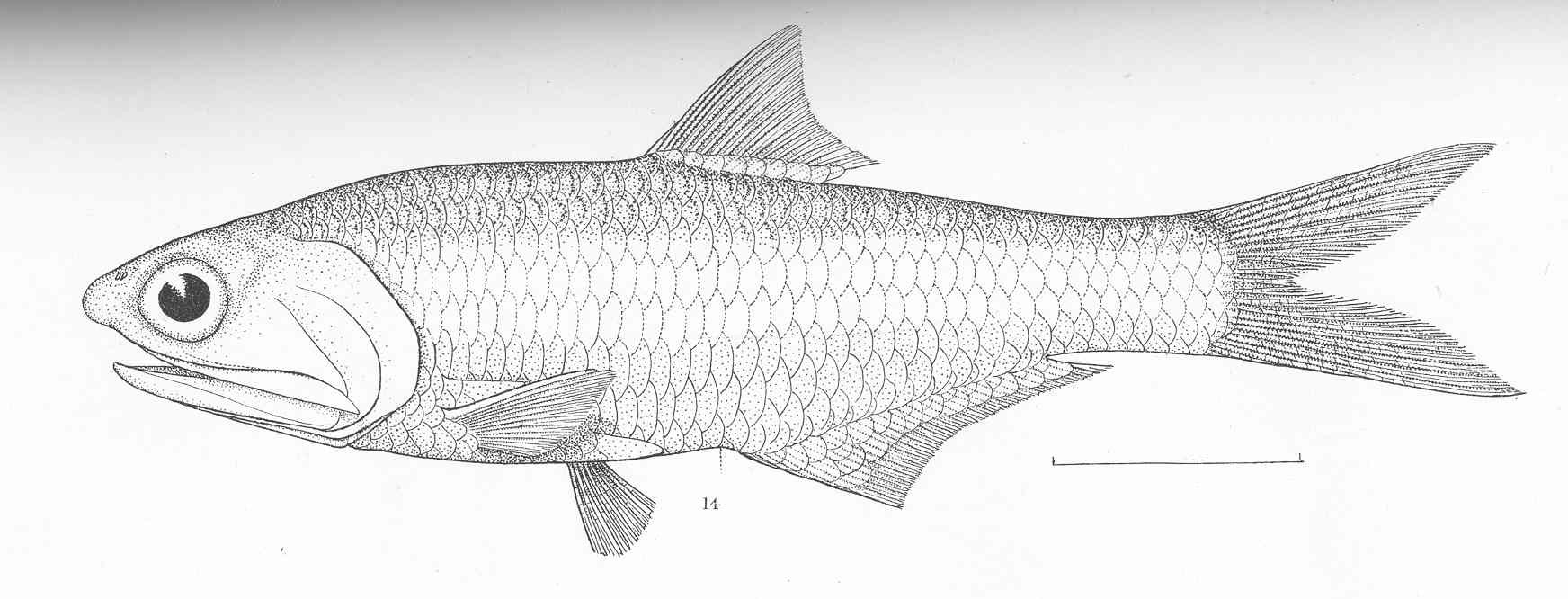 Anchovia rastralis Gilbert & Pierson. Type specimen; Panams Subject: Anchovies, Anchovia Tag: Fish